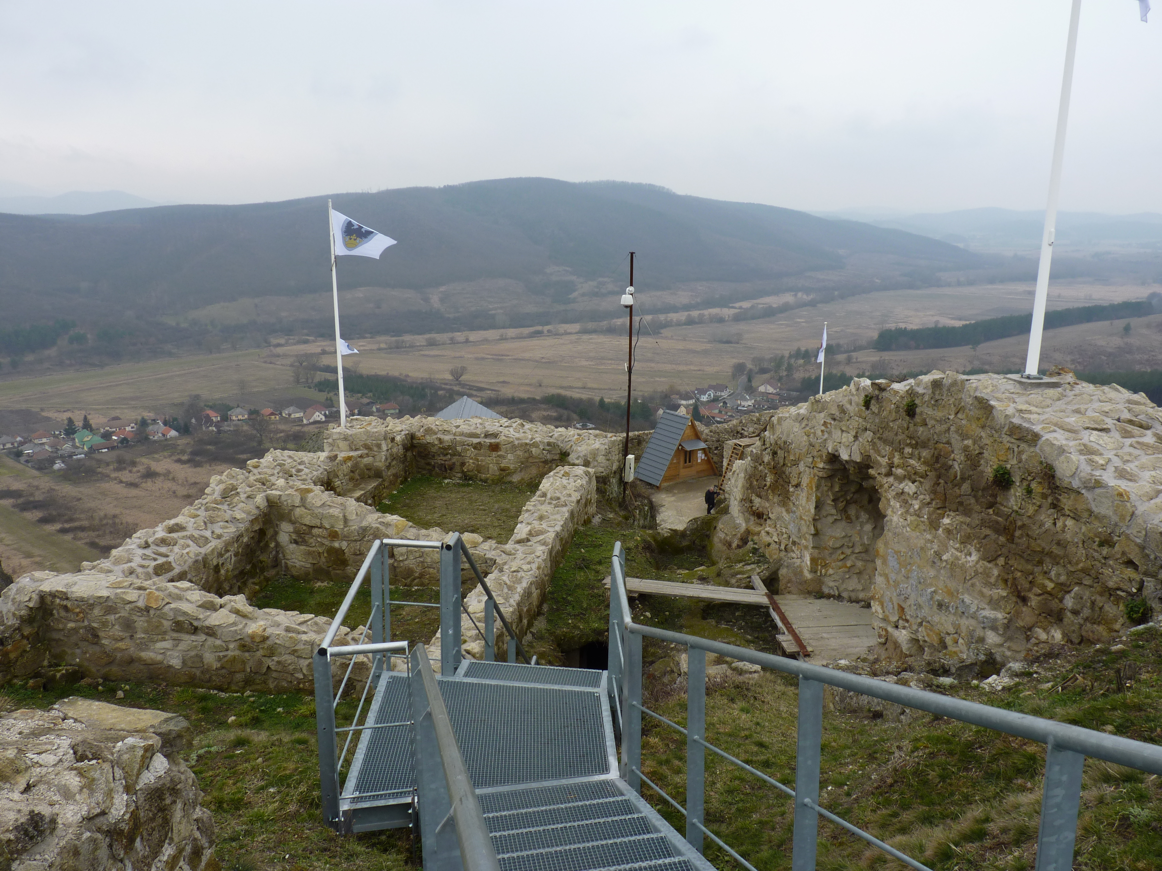 Castle of Sirok - upper castle